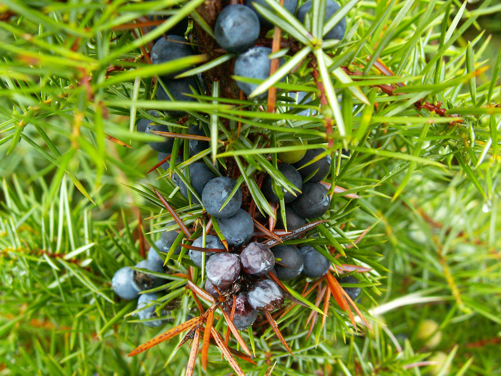 Juniperus communis foliage and cones, in Stara Planina, Bulgaria. Typical specimen of long-leaved variant found in southern Europe.